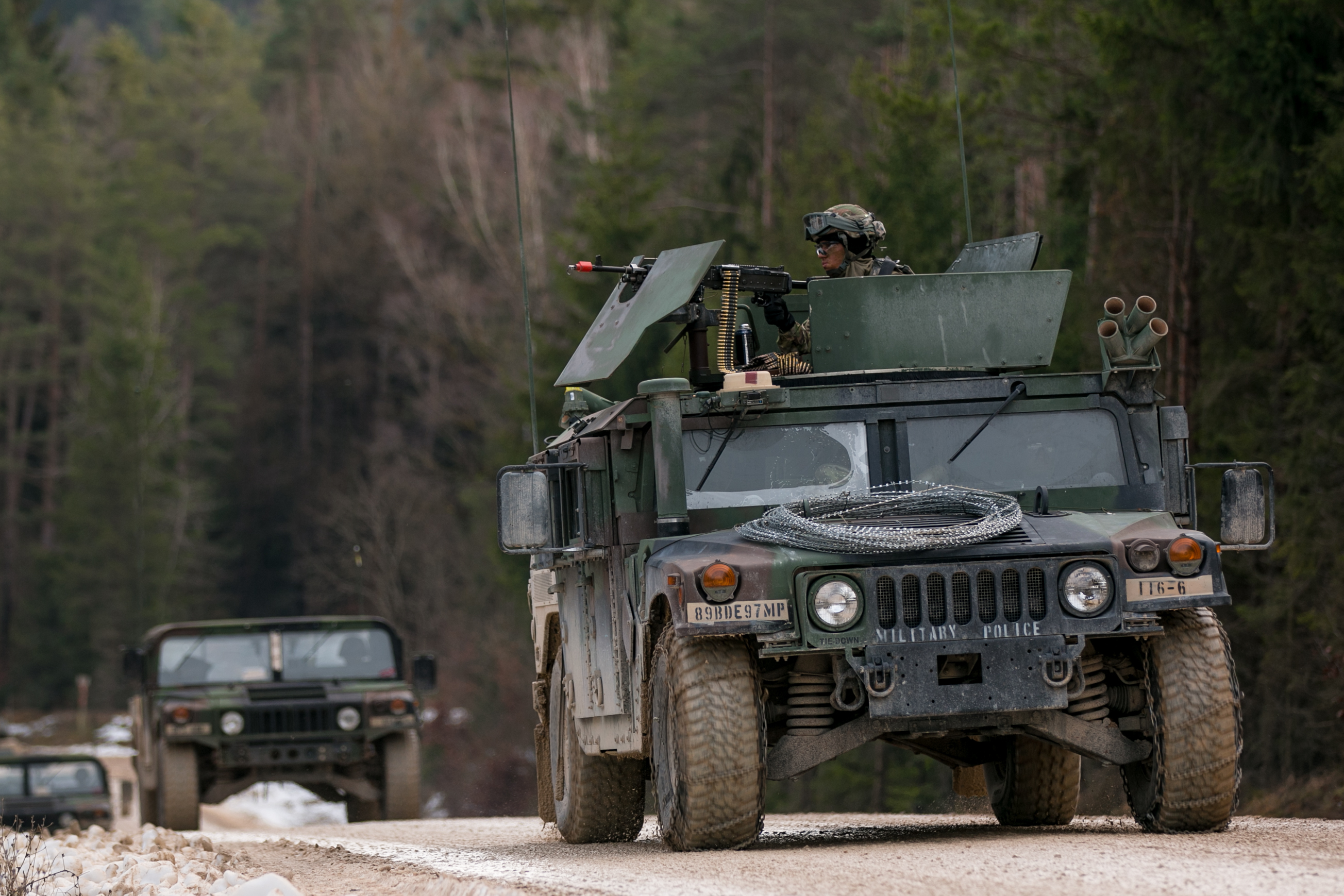 Soldiers from the 287th Military Police Company, 97th Military Police Battalion, 89th Military Police Brigade, Fort Riley, Kansas conduct convoy training during Allied Spirit VIII on Jan. 25, 2018 in Hohenfels Training Area, Germany. Roughly 4,100 troops from 10 nations are participating in Allied Spirit VIII, a multinational training exercise designed to test participants' readiness and capabilities. (U.S. Army photo by Spc. Dustin D. Biven / 22nd Mobile Public Affairs Detachment)